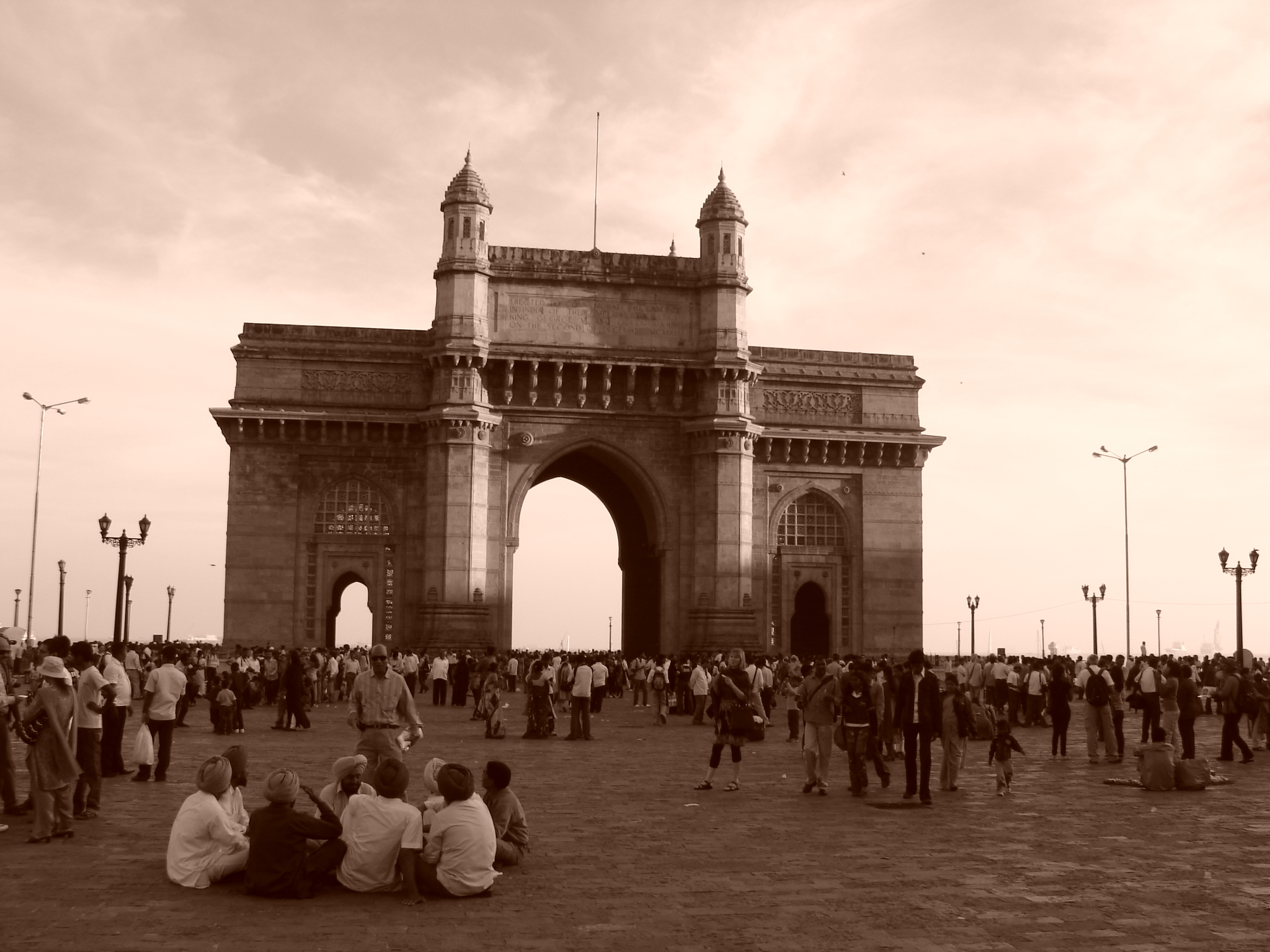 Gateway of India